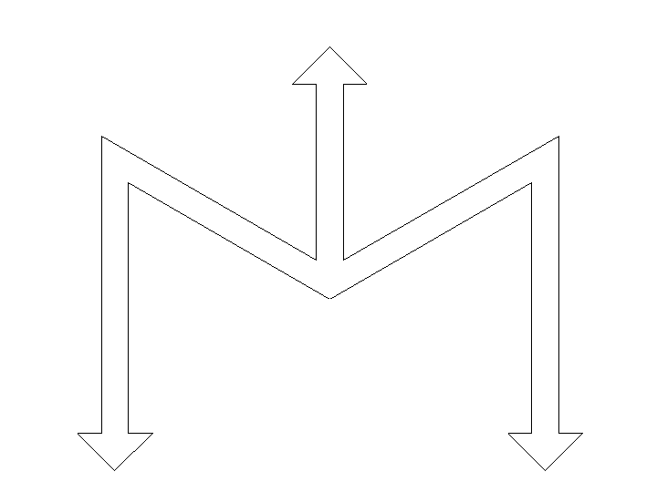 Mark of Ww2 GermanDivision Panzer 27